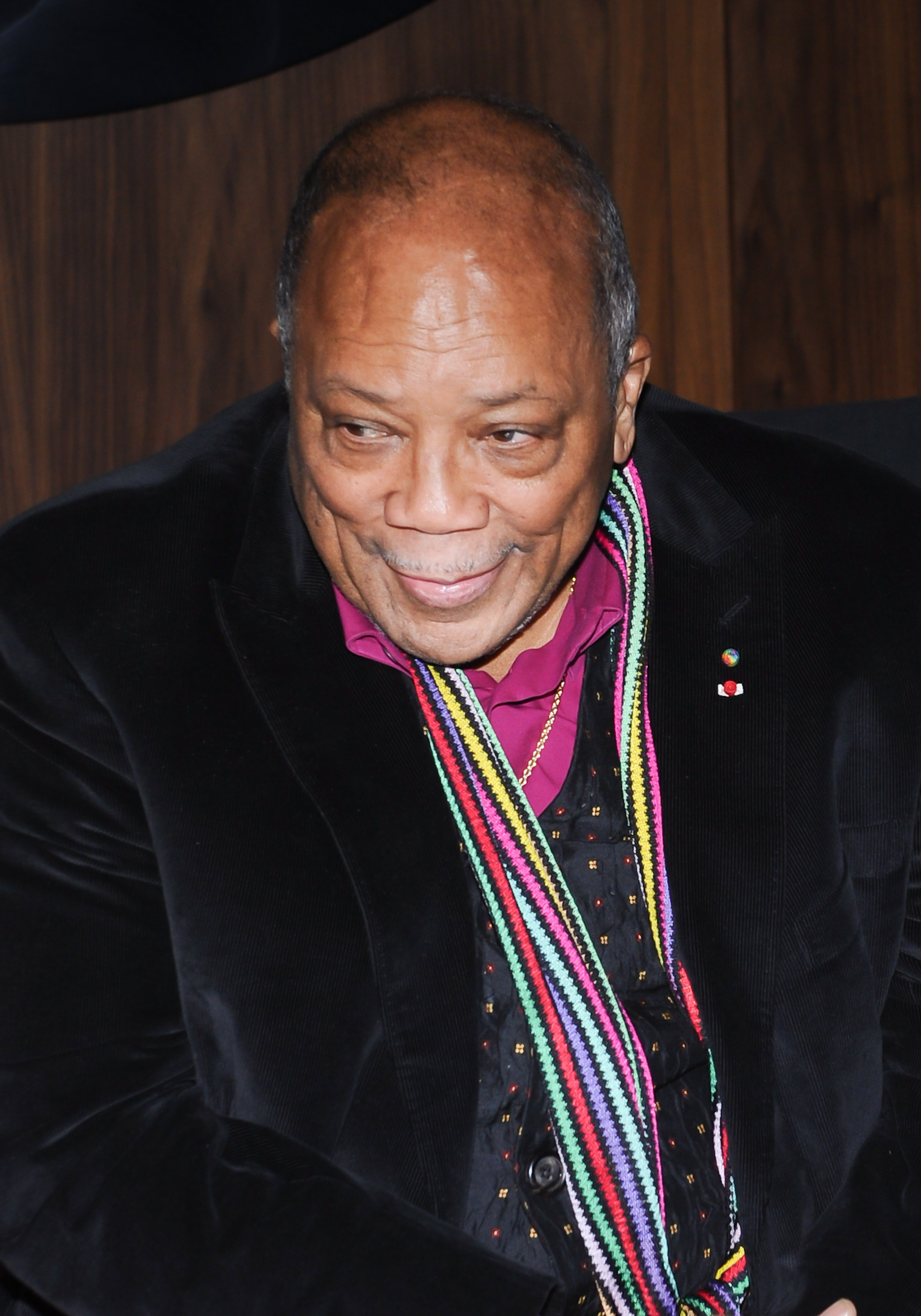 On May 10, 2014, Quincy Jones and Norman Jewison met with the Slaight Family Music Lab creators and residents. Photos by Sam Santos.